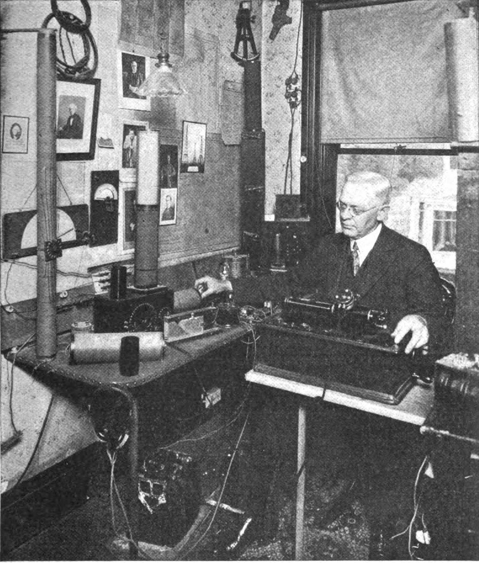 Amateur radio operator Charles E. Apgar operating his wireless telegraphy station in Westfield, New Jersey. Original caption: "The Radio Detective Who Unfathomed the Famous 'Nauen Buzz'" "During the early days of the World War the incredibly rapid and undecipherable radio signals between the most powerful broadcasting station in Germany and the station of the "Telefunken Company" at Sayville, Long Island, N. Y., aroused the attention of the U. S. officials. But it was radio amateur, Charles E. Apgar of Westfield, N. J., who finally found the solution by means of amplifiers that recorded these signals on was phonograph cylinders. By this means the messages were de-coded – and the Long Island station was promptly seized. This picture shows Mr. Apgar operating the same apparatus which he used on that historic occasion."